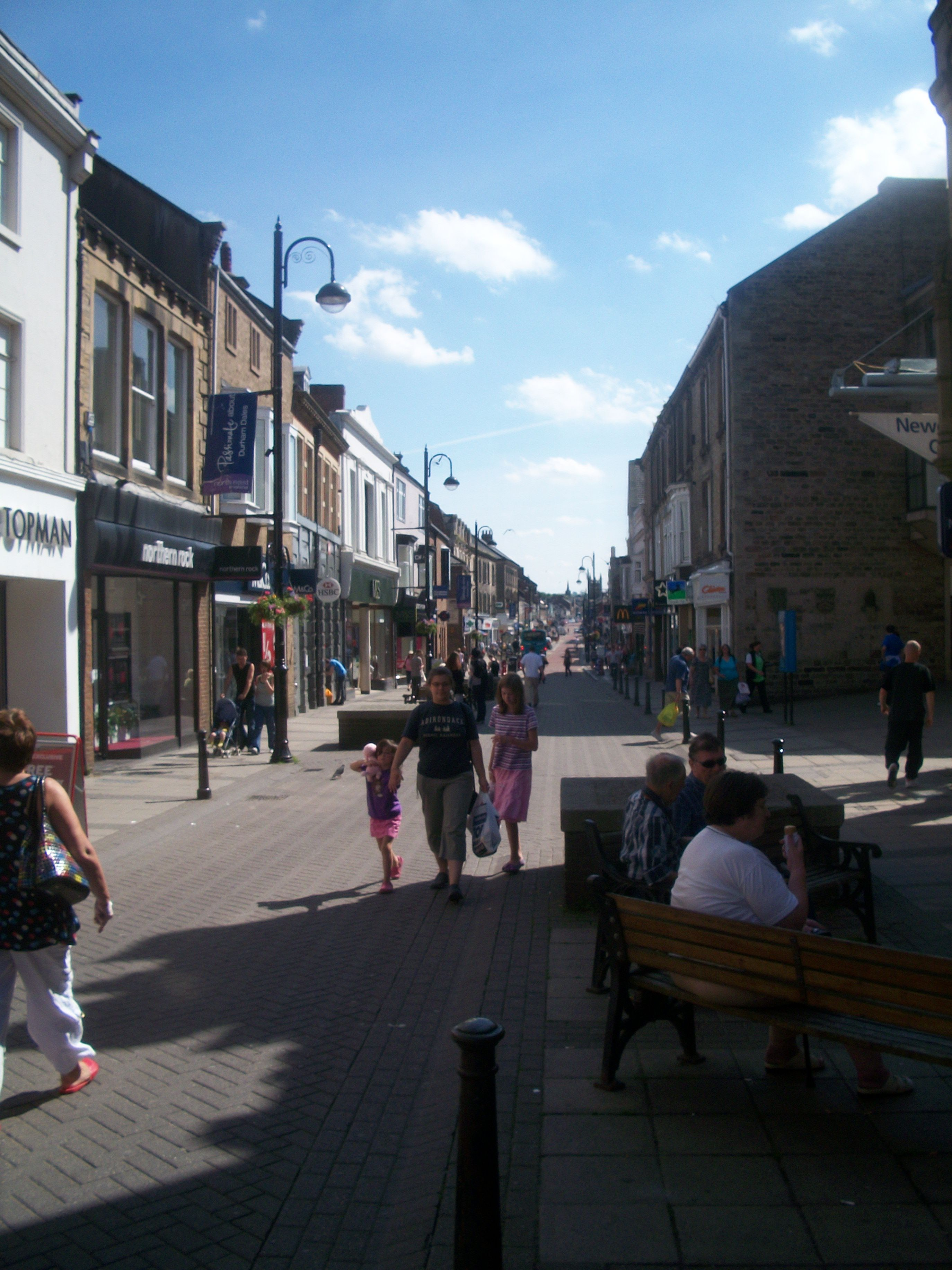 Shopping area in the centre of Bishop Auckland, Co. Durham